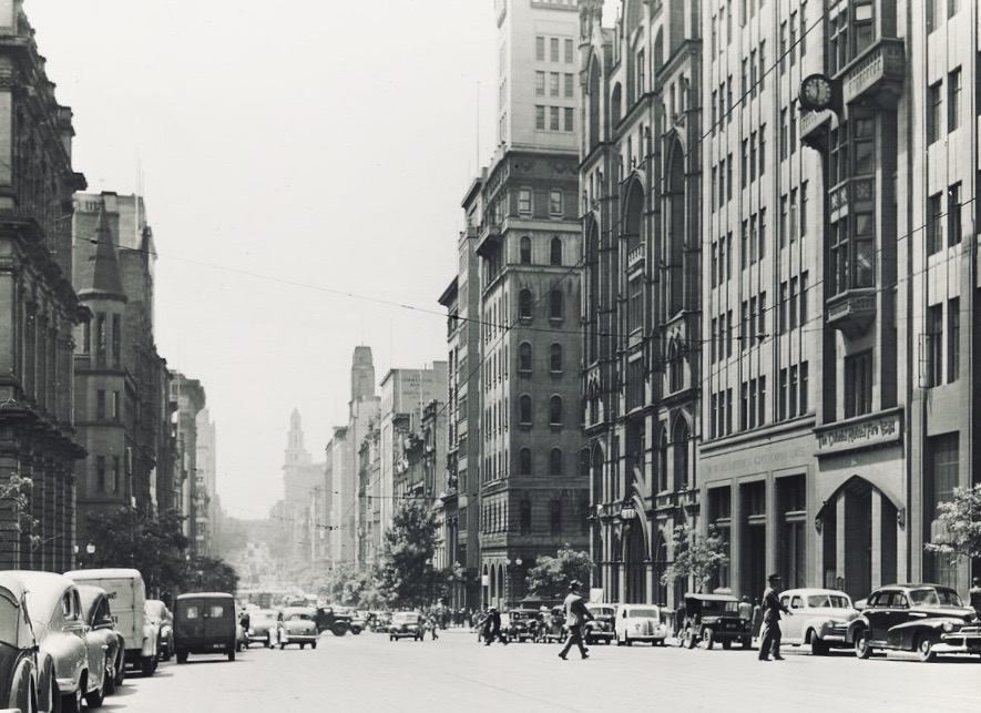 "Collins Street, Melbourne, looking east from Market Street". Author / Creator: Hollick, Ruth 1883-1977